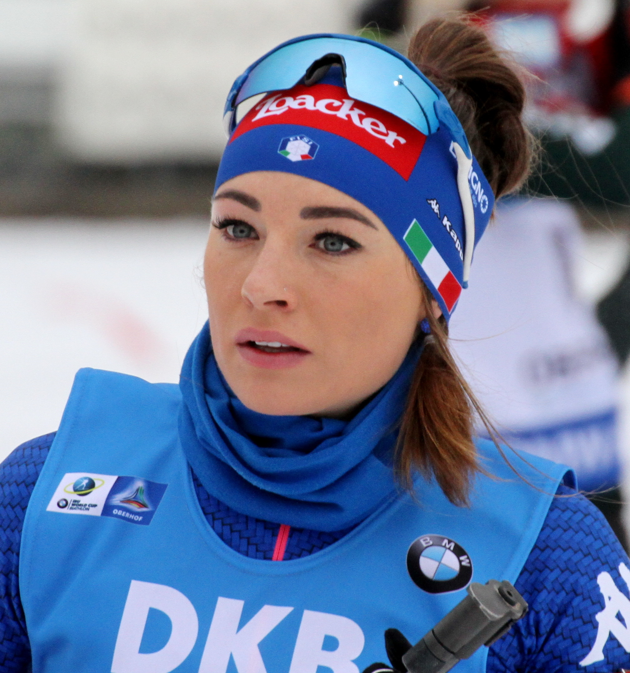 2018 Oberhof Biathlon World Cup - Sprint Women